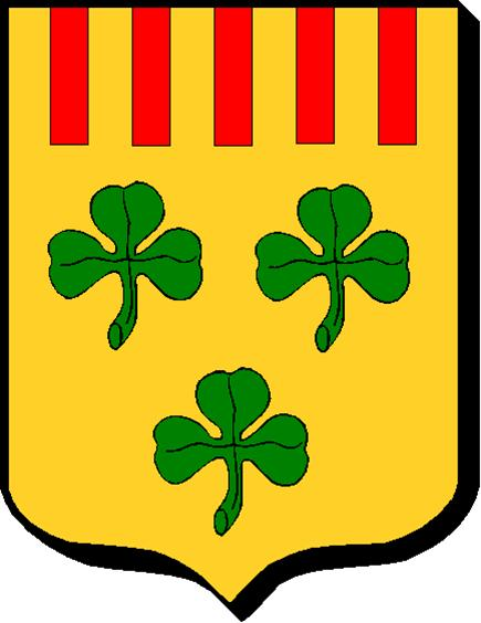 Coat of arms of the de Fronsac Family (France, Aquitaine)